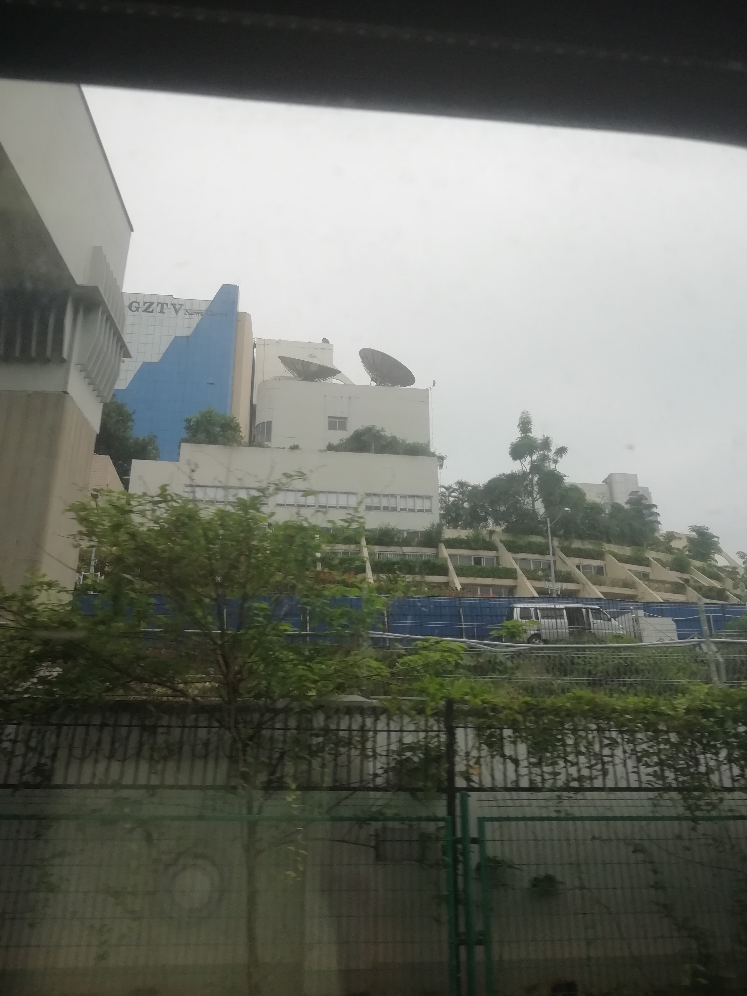 The old headquarters of Guangzhou Television, located on Middle Huanshi Road. The television moved near Canton Tower in 2018. 中文（中国大陆）: 位于环市中路的广州电视台旧台址，已于2018年全面迁至广州塔附近。